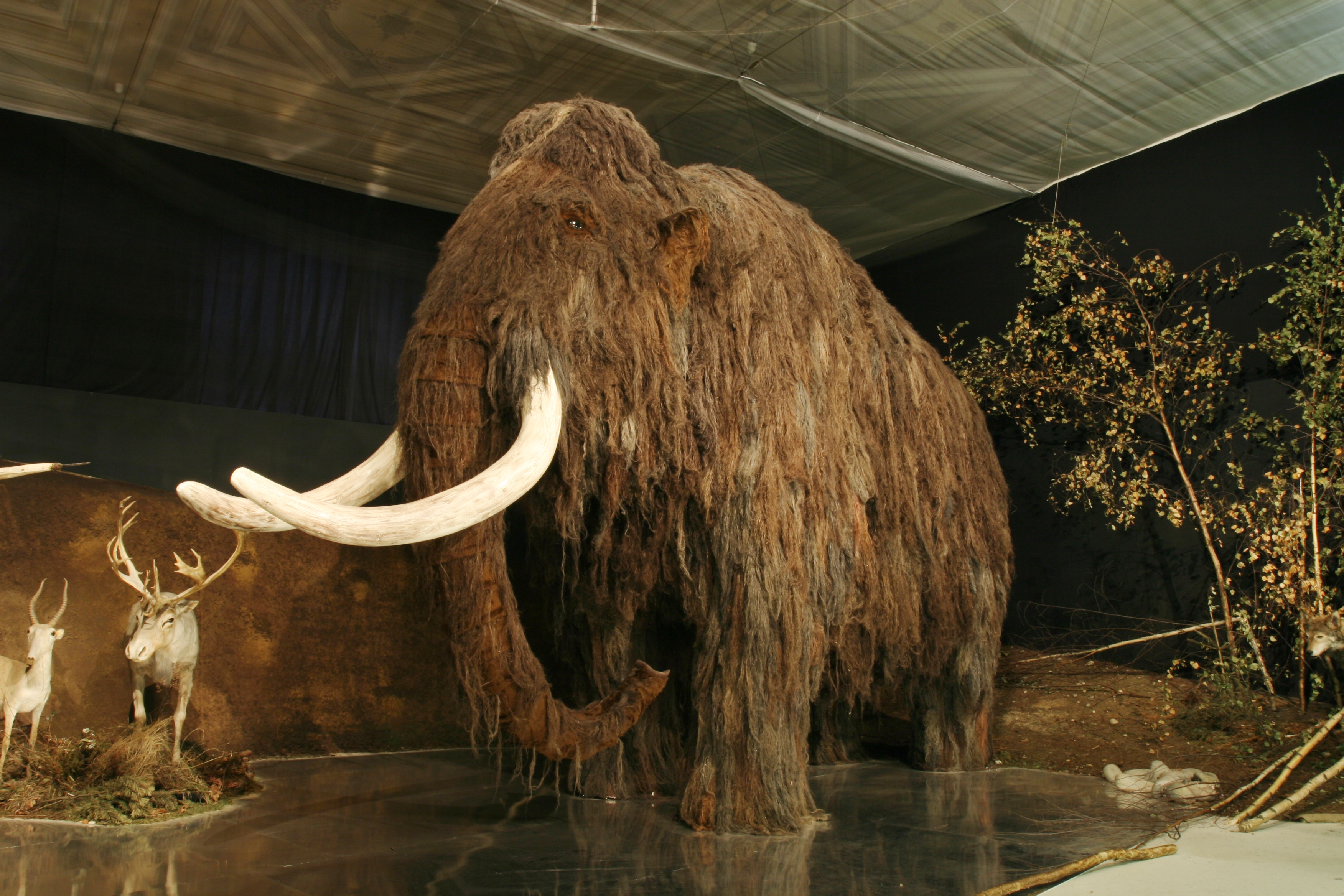 Fake mammoth at "Lovci mamutů" exhibition in National Museum in Prague